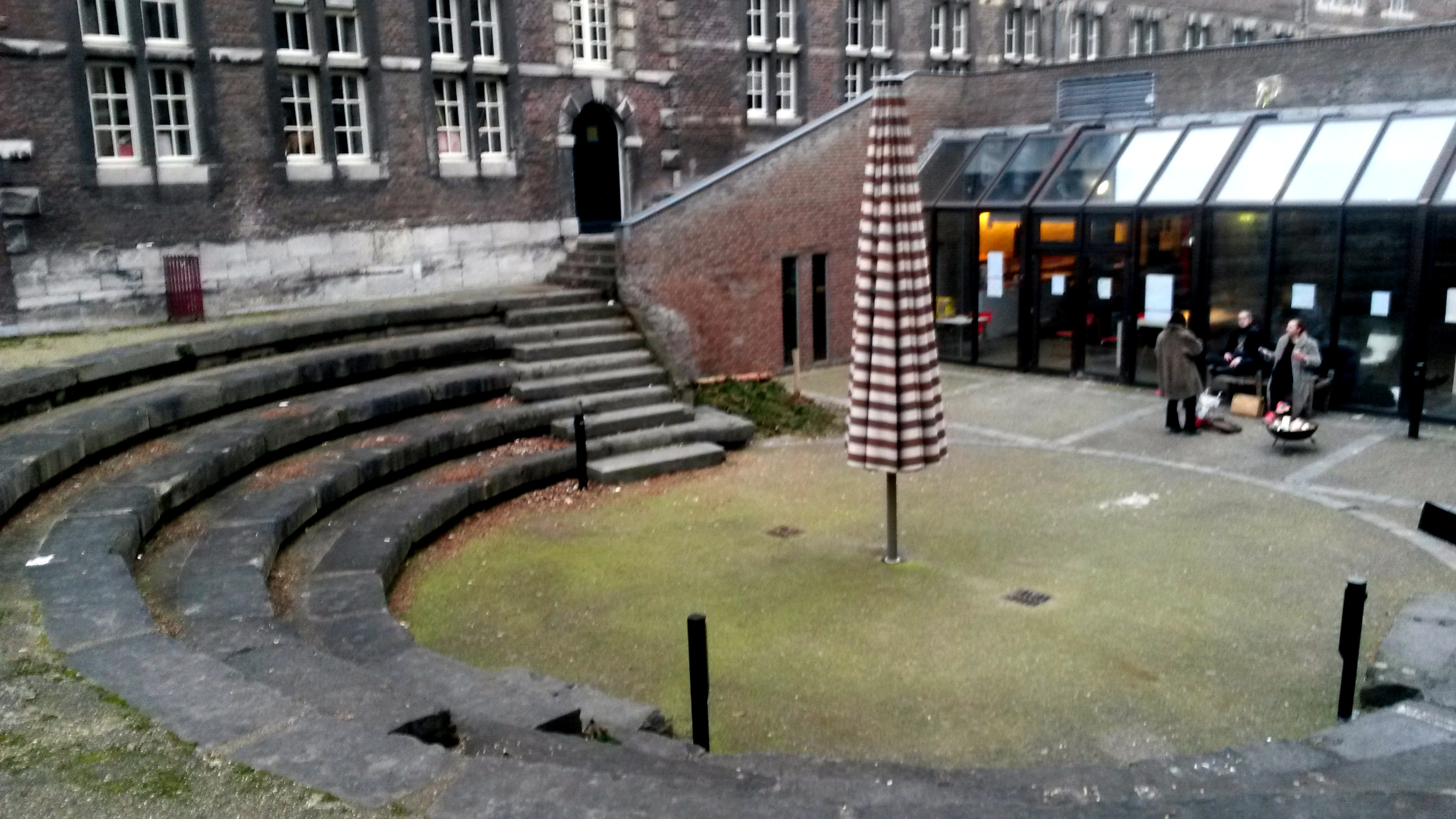 2015-02-07: Open air theater at Academy of Dramatic Arts; Maastricht.